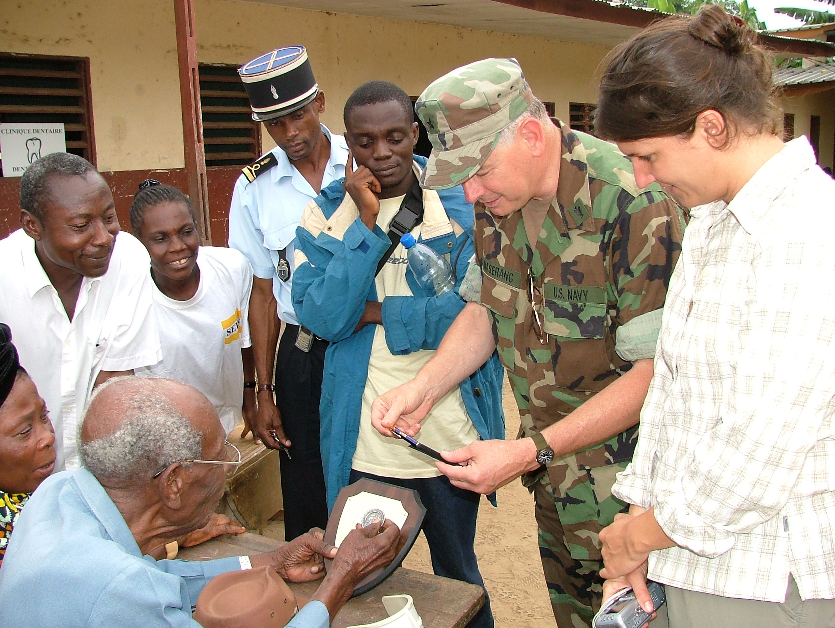 Cap Esterias, Gabon (July 14, 2005) - Deputy Director of the Medical Service Corp for Reserve Affairs/ Director of the Navy Medicine Office of Homeland Security Forward, Rear Admiral David L. Maserang, presents a plaque and U.S. Navy pen to a citizen of Cap Esterias, Gabon, in commemoration of the WATC-05 visit to the village. U.S. Navy photo by Hospital Corpsman 3rd Class Tracie L. Cline (RELEASED)